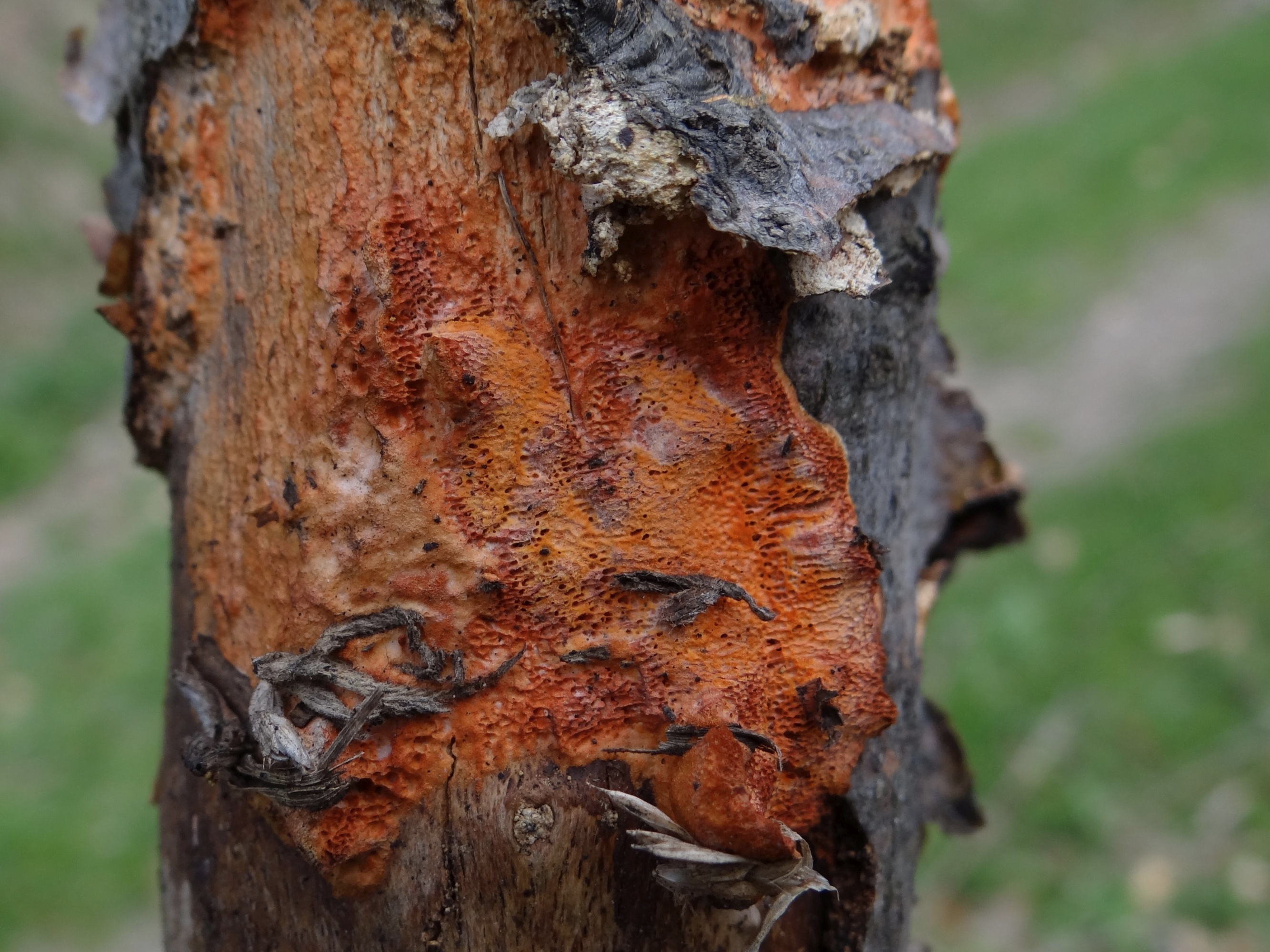 Pycnoporus cinnabarinus (location: Poland, Ochotnica Górna, Forendówki)